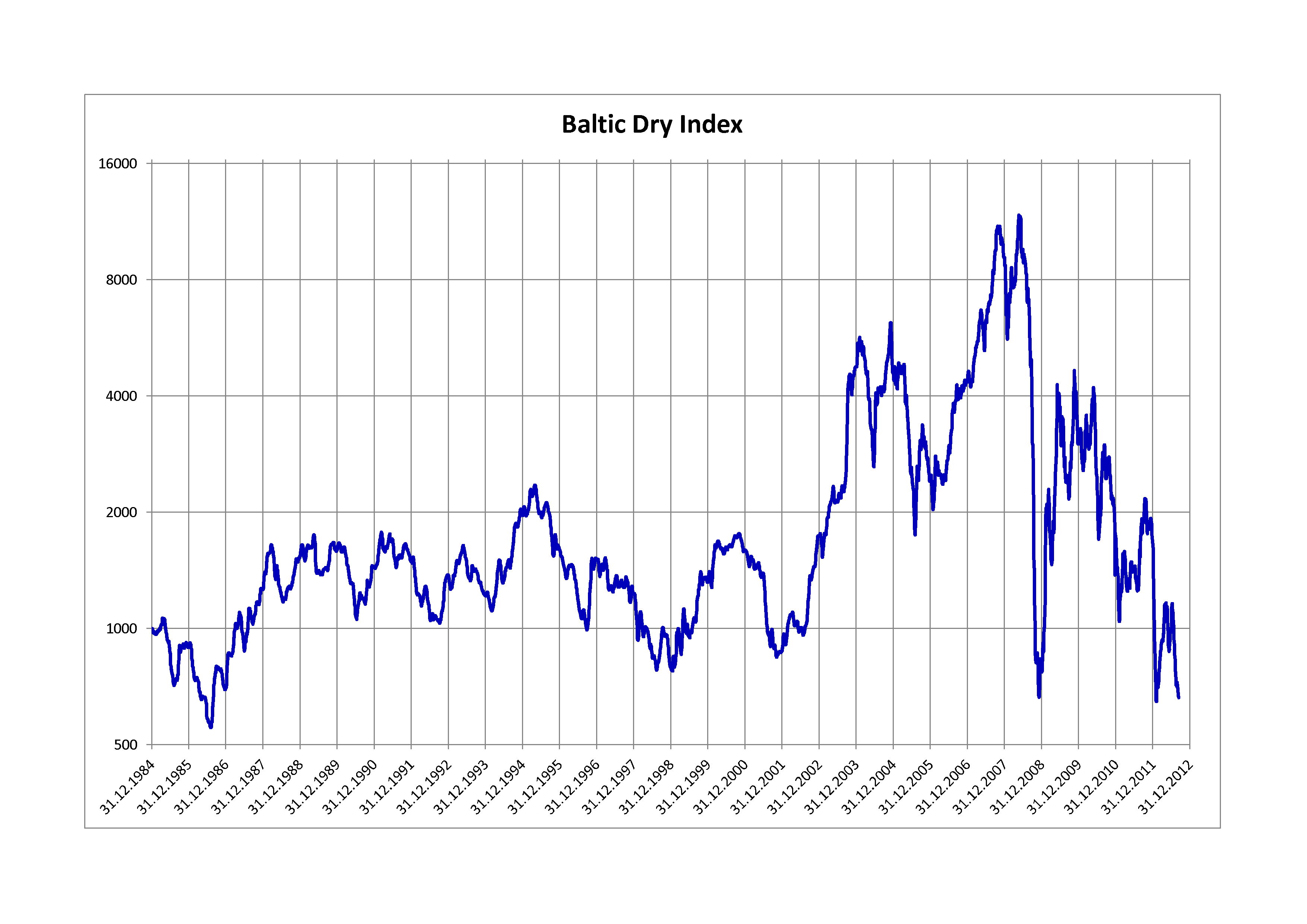 Baltic Dry Index from January 1985 to September 2012 (daily closings)